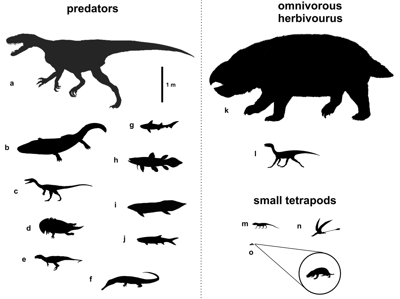 Sketch-drawing of the vertebrate faunal assemblage of the Lisowice site (modified from Niedźwiedzki)10. (a) Large, theropod-like predatory archosaur (Smok wawelski); (b) large temnospondyl amphibian (Cyclotosaurus sp.); (c) small predatory dinosaurs (Neotheropoda indet.); (d) temnospondyl amphibian (Gerrothorax sp.); (e) small basal crocodylomorph (Crocodylomorpha indet.); (f) small diapsid (Choristodere-like animal); (g) hybodont sharks (Polyacrodus and Hybodus); (h) coelacanth fish; (i) dipnoan fish (Ptychoceratodus sp.); (j) actinopterygian fish; (k) gigantic dicynodont; (l) dinosauriforms or early dinosaurs (Dinosauriformes indet. or Dinosauria indet.); (m) small lepidosauromorphs (Sphenodontia indet.); (n) pterosaurs (Pterosauria indet.); (o) early mammaliaform (Hallautherium sp.).